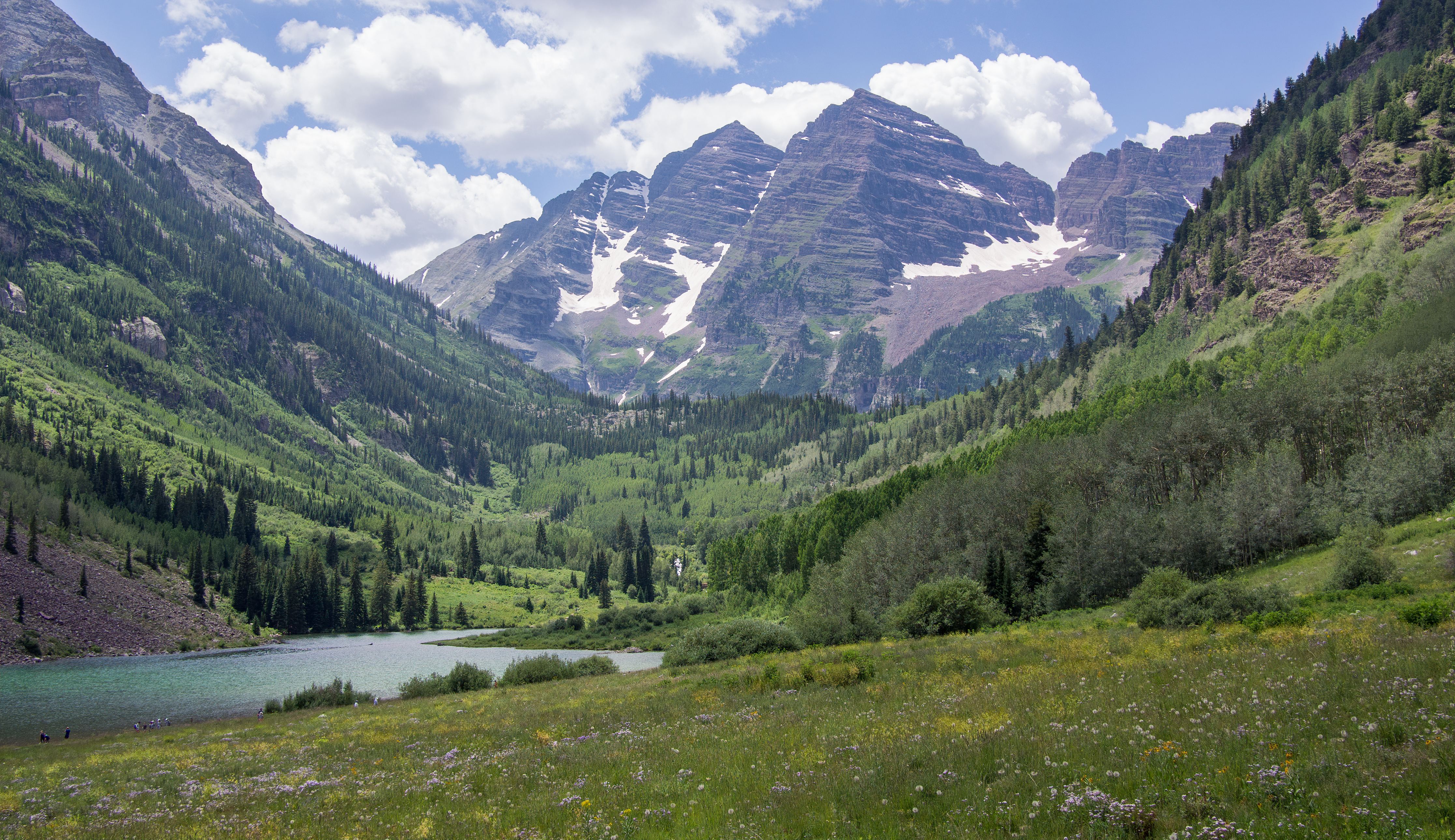 The Maroon Bells in Aspen, Colorado, with Maroon Lake in the foreground.